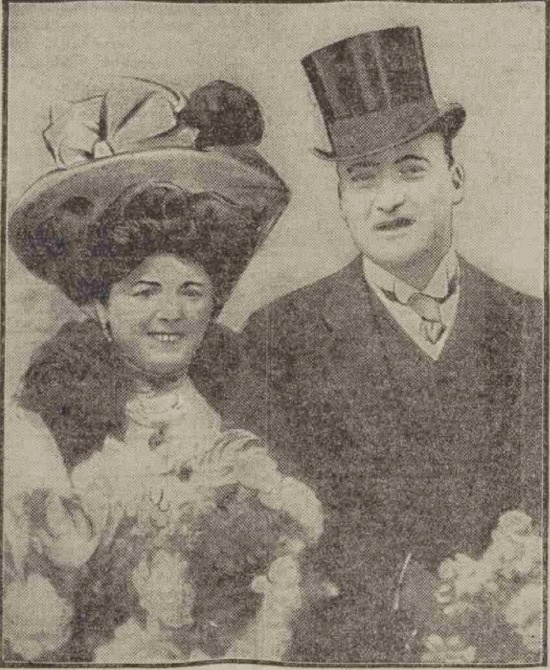 A sketch of the music hall singer Marie Lloyd and her husband Alec Hurley on their wedding day in 1905.